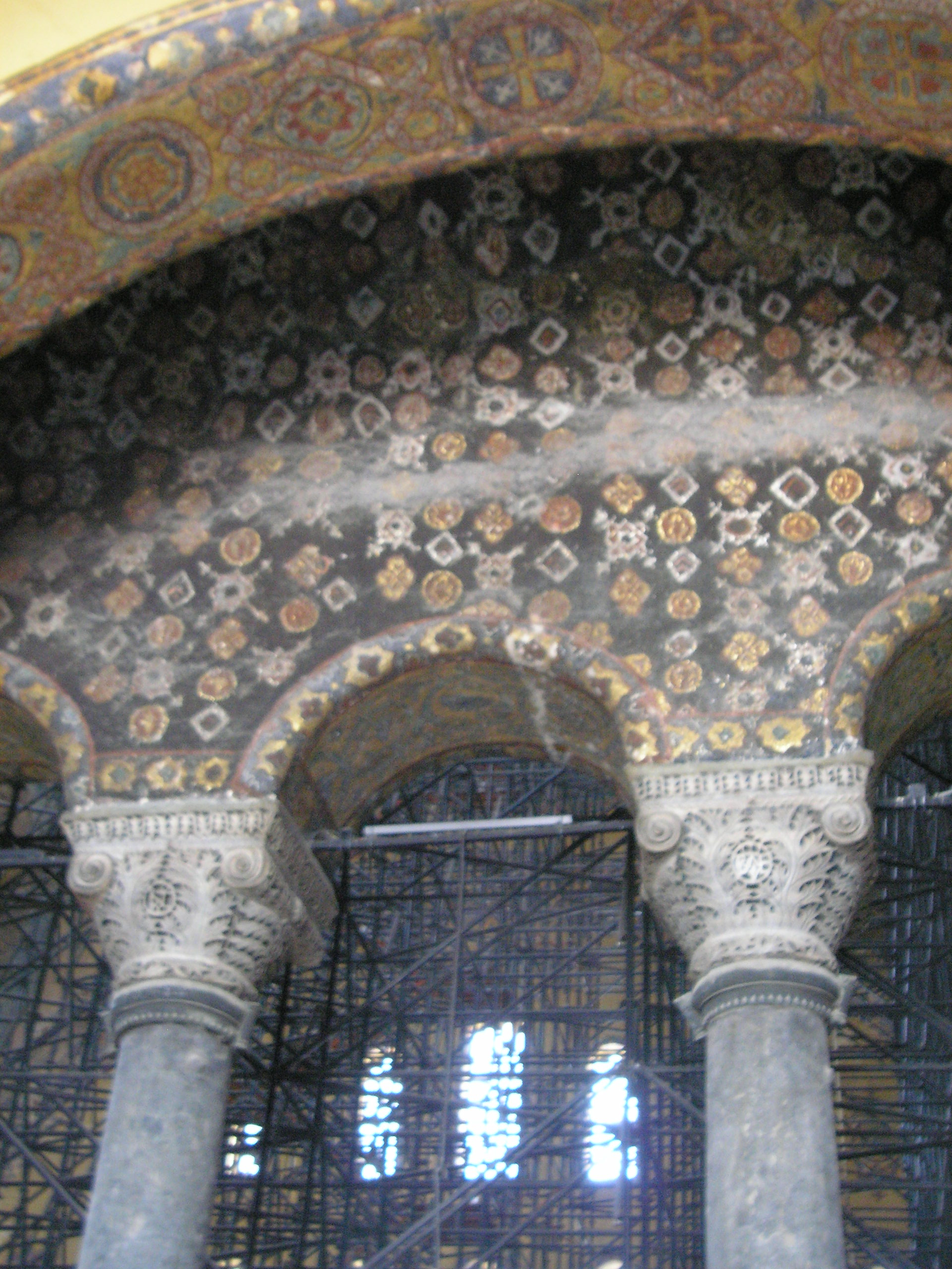 Mosaics in the upper gallery, or enclosure, of the Hagia Sophia. Many mosaics are located on this floor.